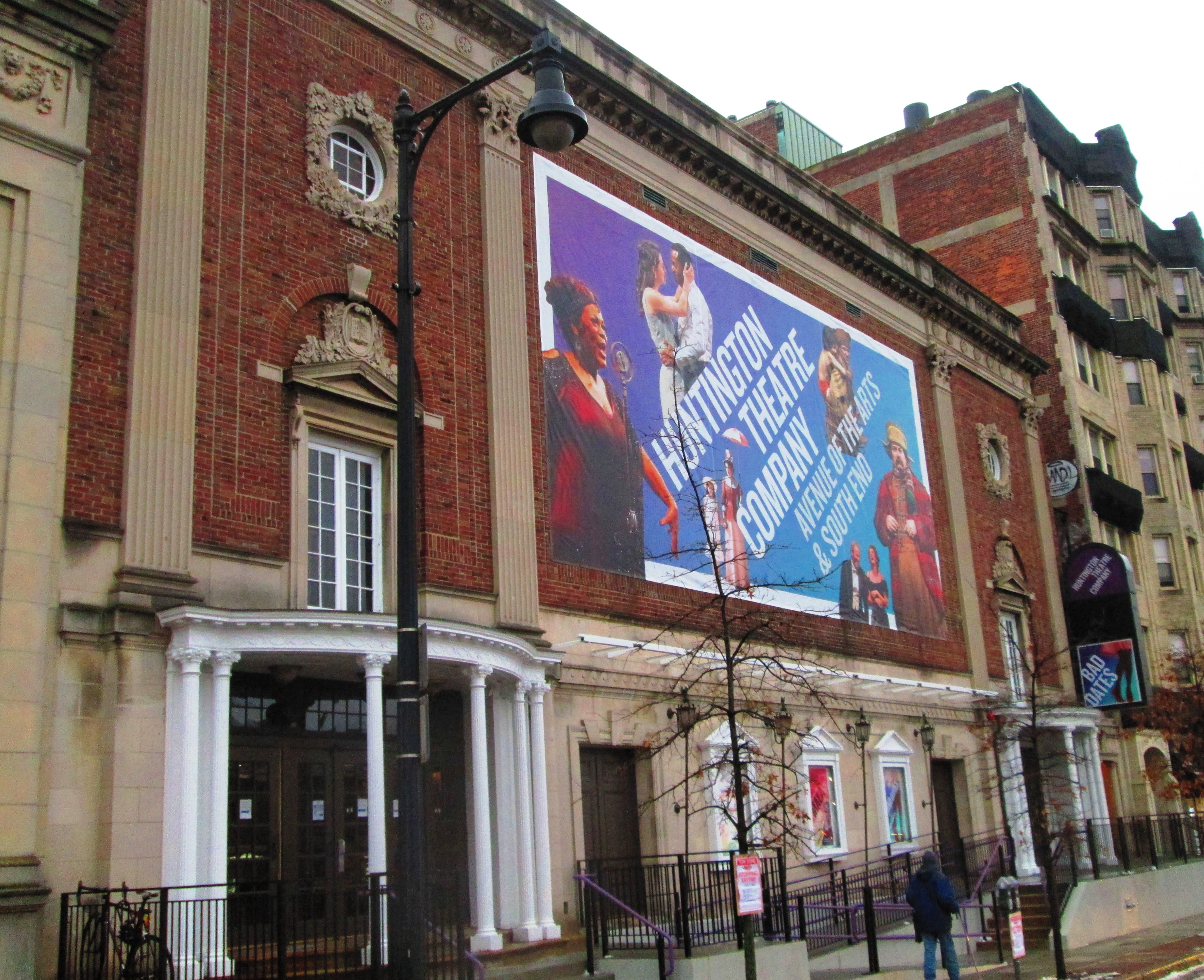 The Huntington Theatre Company's Huntington Avenue Theatre, located at 264 Huntington Avenue in Boston, Massachusetts. The theatre was built in 1925 and was designed by J. William Beal's Sons in the Georgian Revival style. (Source: AIA Guide to Boston (2nd ed.)) It was originally the Repertory Theatre, and was later bought by Boston University to be the Boston University Theatre.